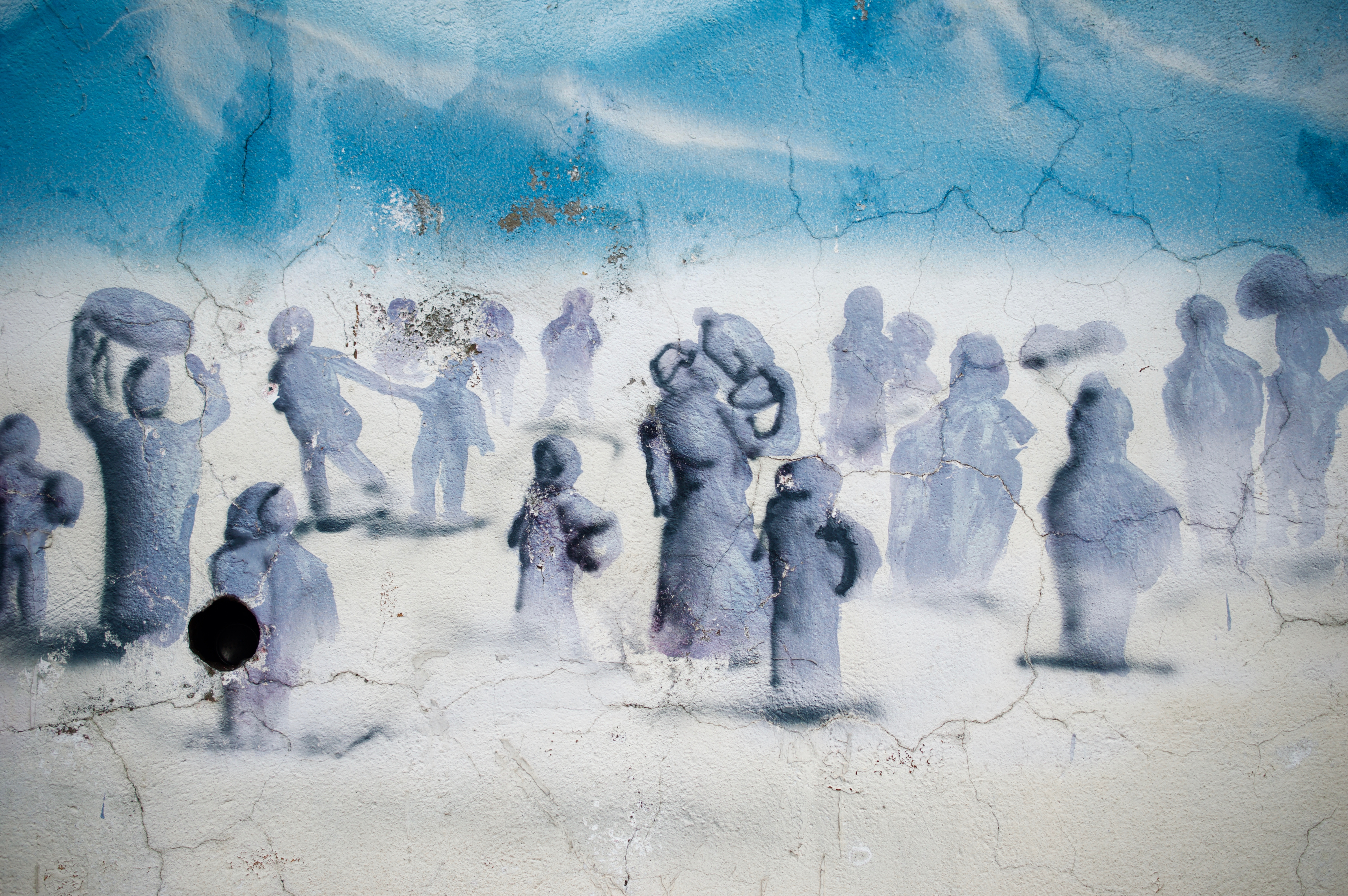 Akre, Duhok Governorate, Kurdistan Region or Iraq